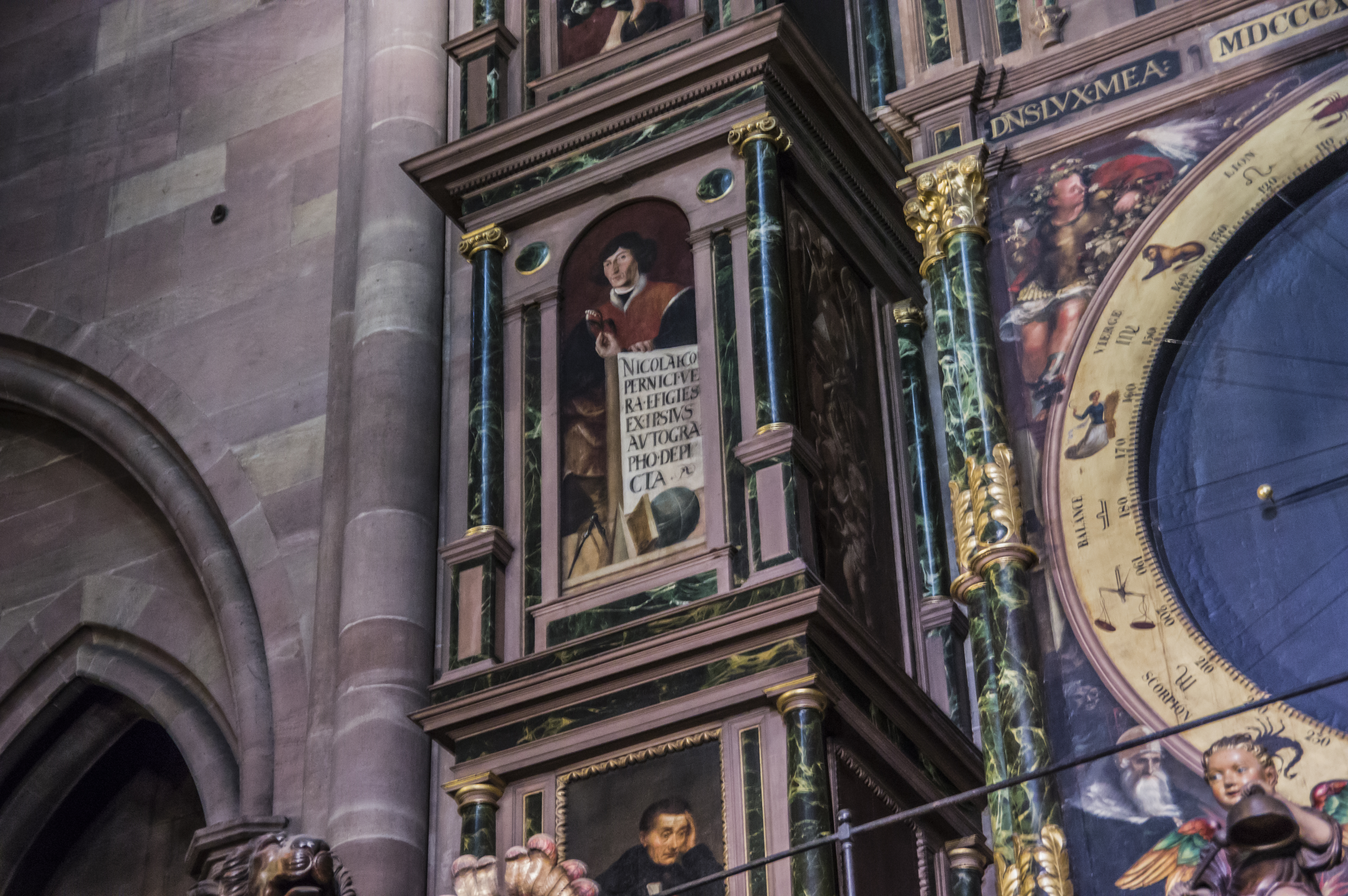 Cathédrale de Notre-Dame de Strasbourg Strasbourg astronomical clock